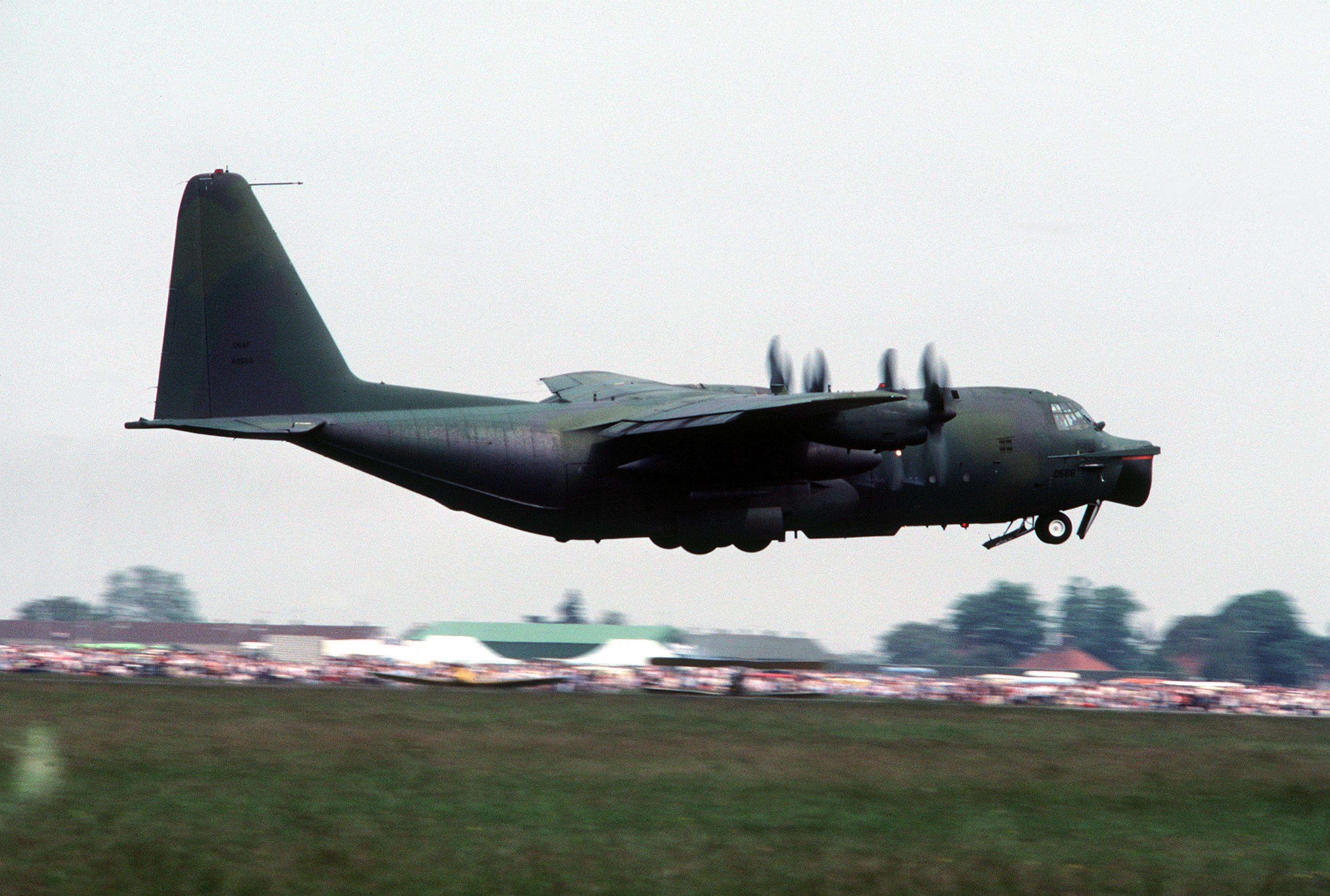 A U.S. Air Force Lockheed MC-130E Hercules "Combat Talon I" special forces support aircraft (s/n 64-0566) making a low pass during "Air Fete '84" at RAF Mildenhall, Suffolk (UK), 9 June 1984.